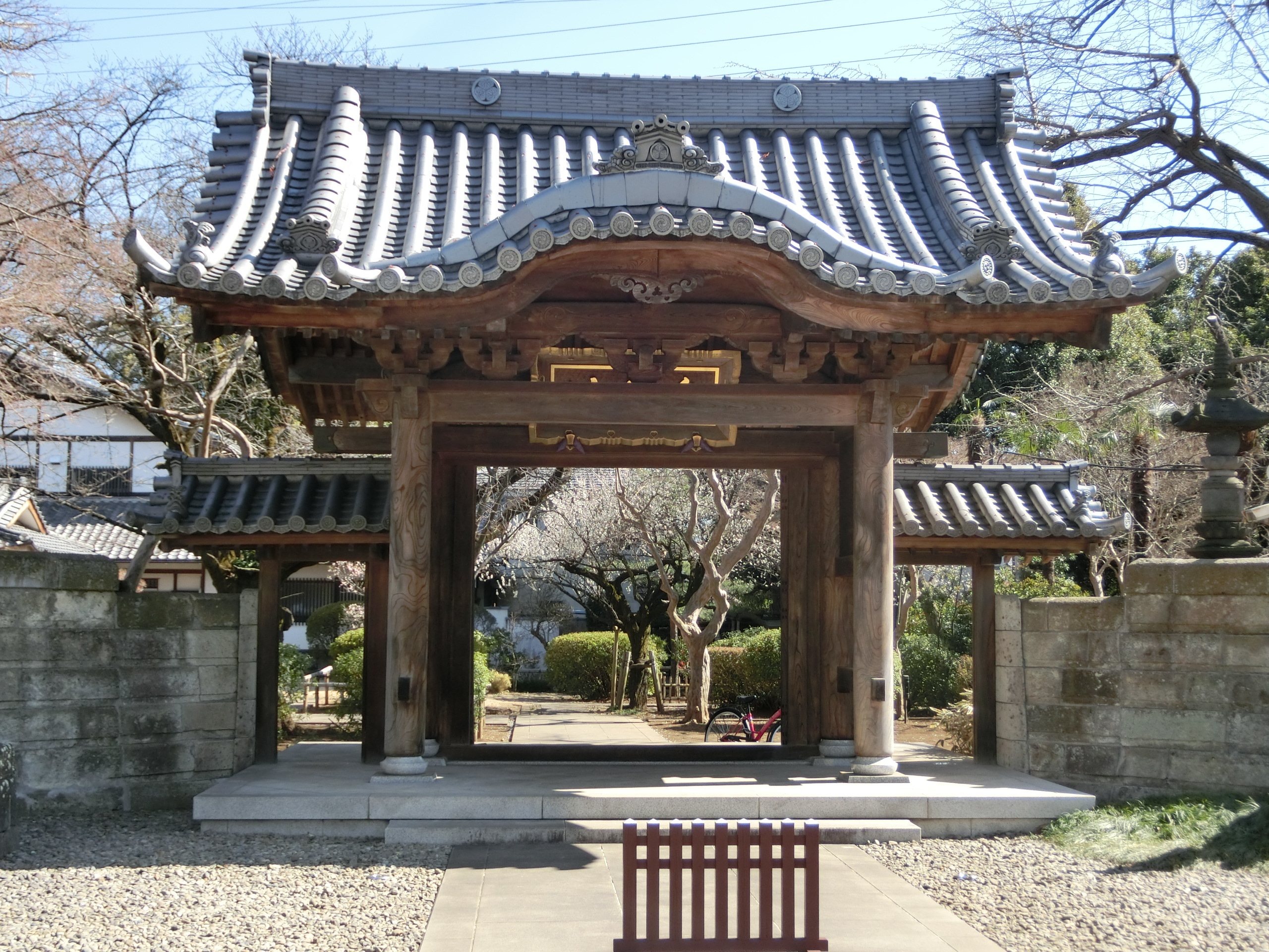 Daien-ji (Suginami)